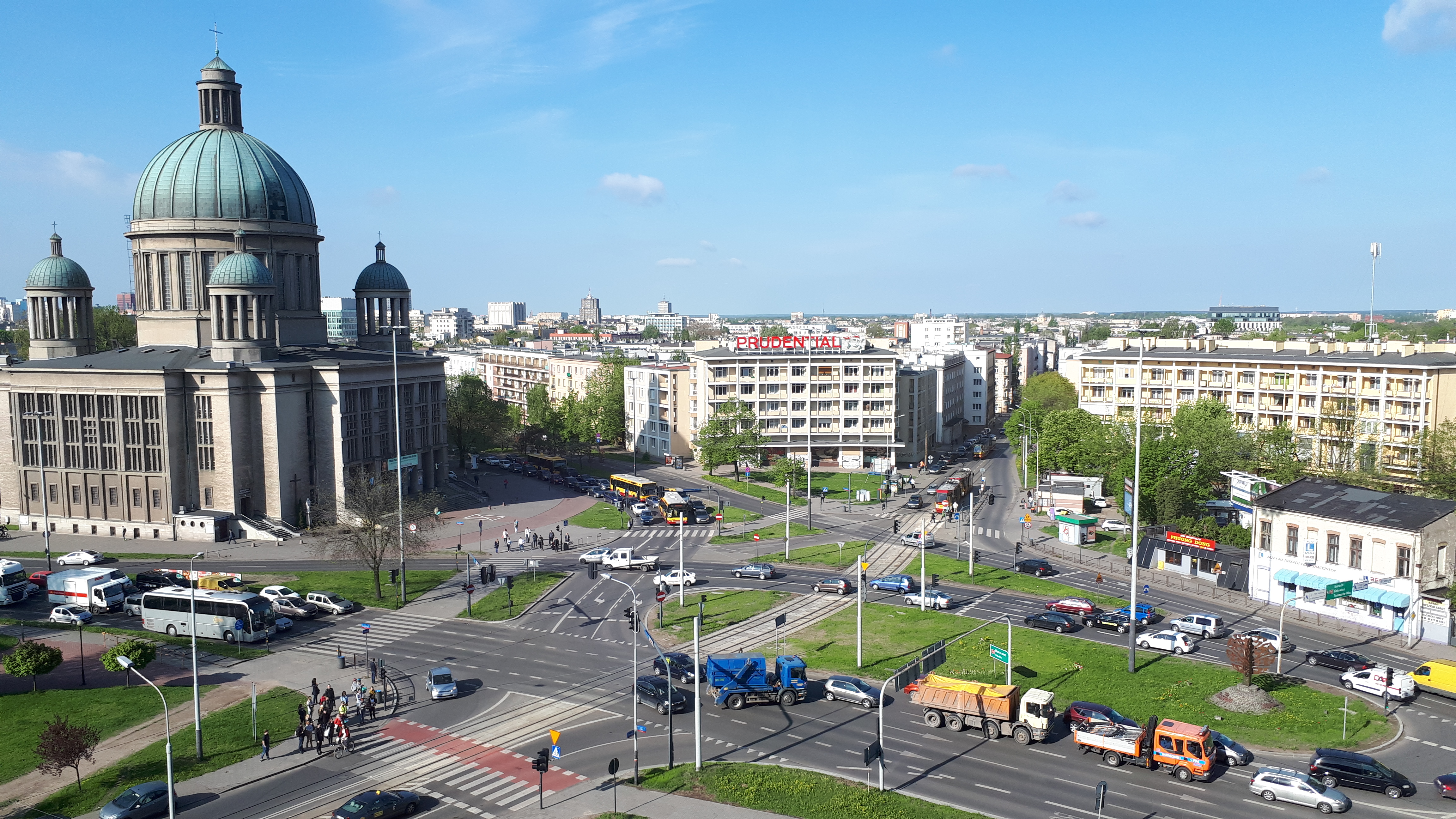 Solidarność Roundabout in Łódź